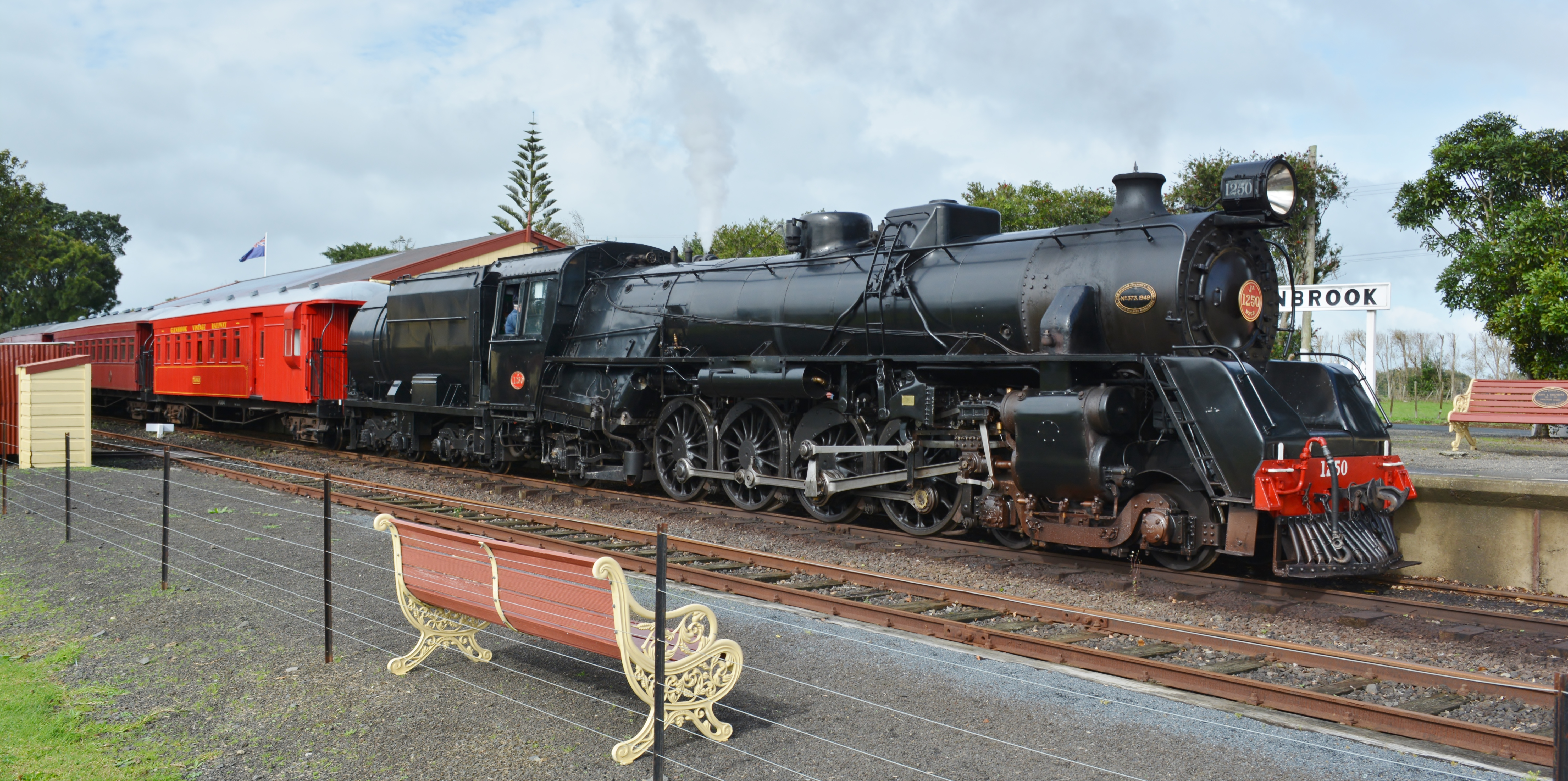 Glenbrook,South Auckland.New Zealand